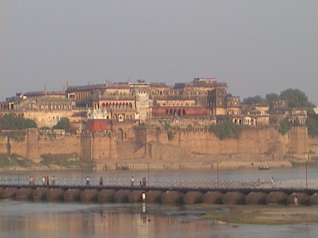 See Varanasi Development Cooperation Handbook/Stories/Responsible Development - Varanasi The Varanasi Heritage Dossier Kautilya Society Mediendatei abspielen Vrinda Dar - How we got involved in heritage protection of Varanasi